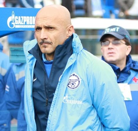 Luciano Spalletti coaching FC Zenit St. Petersburg.